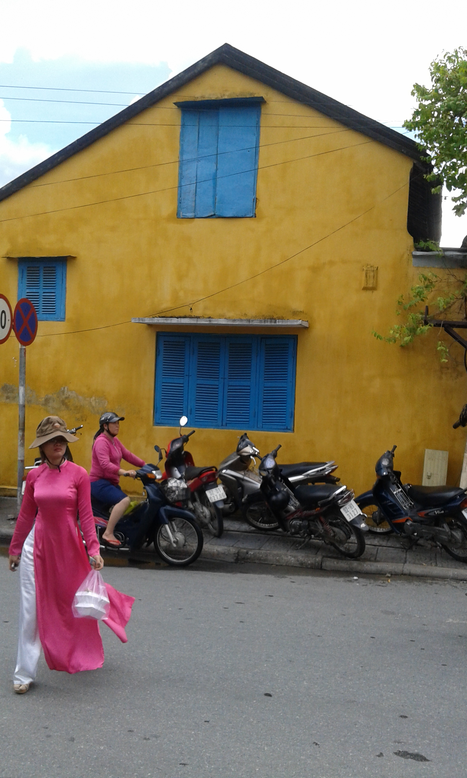 This photo has been taken in the country: Vietnam